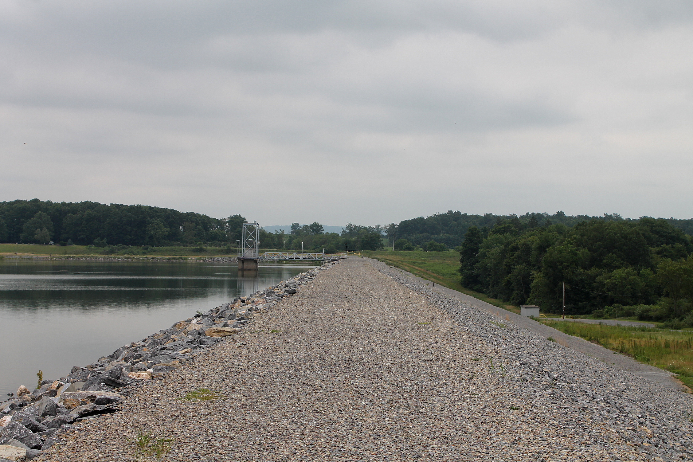 Top of the Chillisquaque Dam on Lake Chillisquaque. A walking path is here.